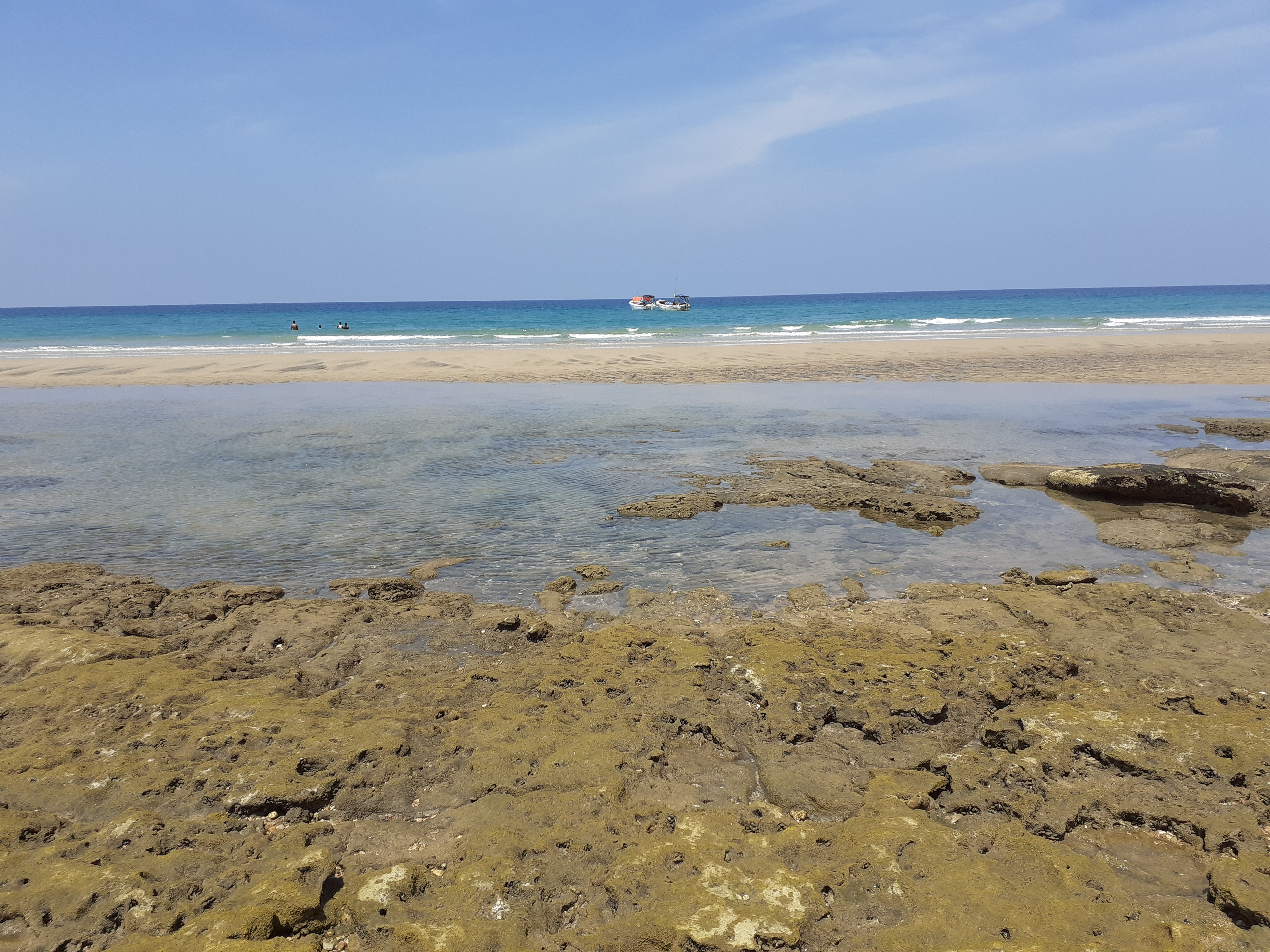 There is beach of berbera somalia its a batalale beach This is an image with the theme "Africa on the Move or Transport" from: Somalia